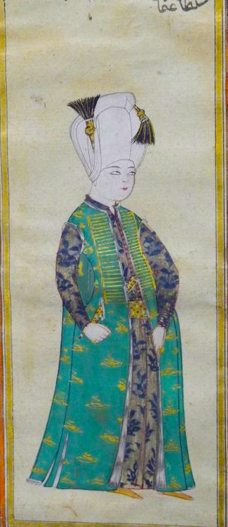 Ottoman Turkish Illustrations from Peter Mundy's Album, "A briefe relation of the Turckes, their kings, Emperors, or Grandsigneurs, their conquests, religion, customes, habbits, etc" - Istanbul 1618